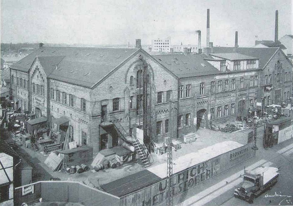 Brønnums Maskinfabrik in Holmbladsgade on Amager in Copenhagen, Denmark